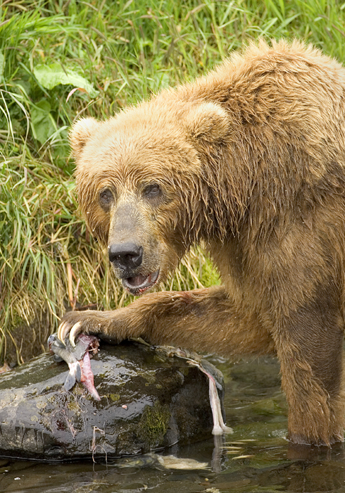 Brown bear in the Kodiak National Willdife Refuge eating salmon.